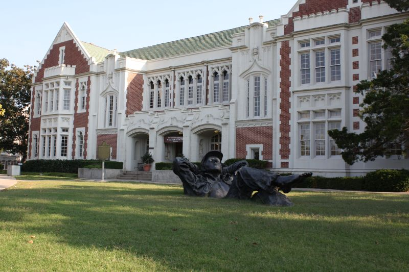 A picture of the University of Oklahoma visitor's center.